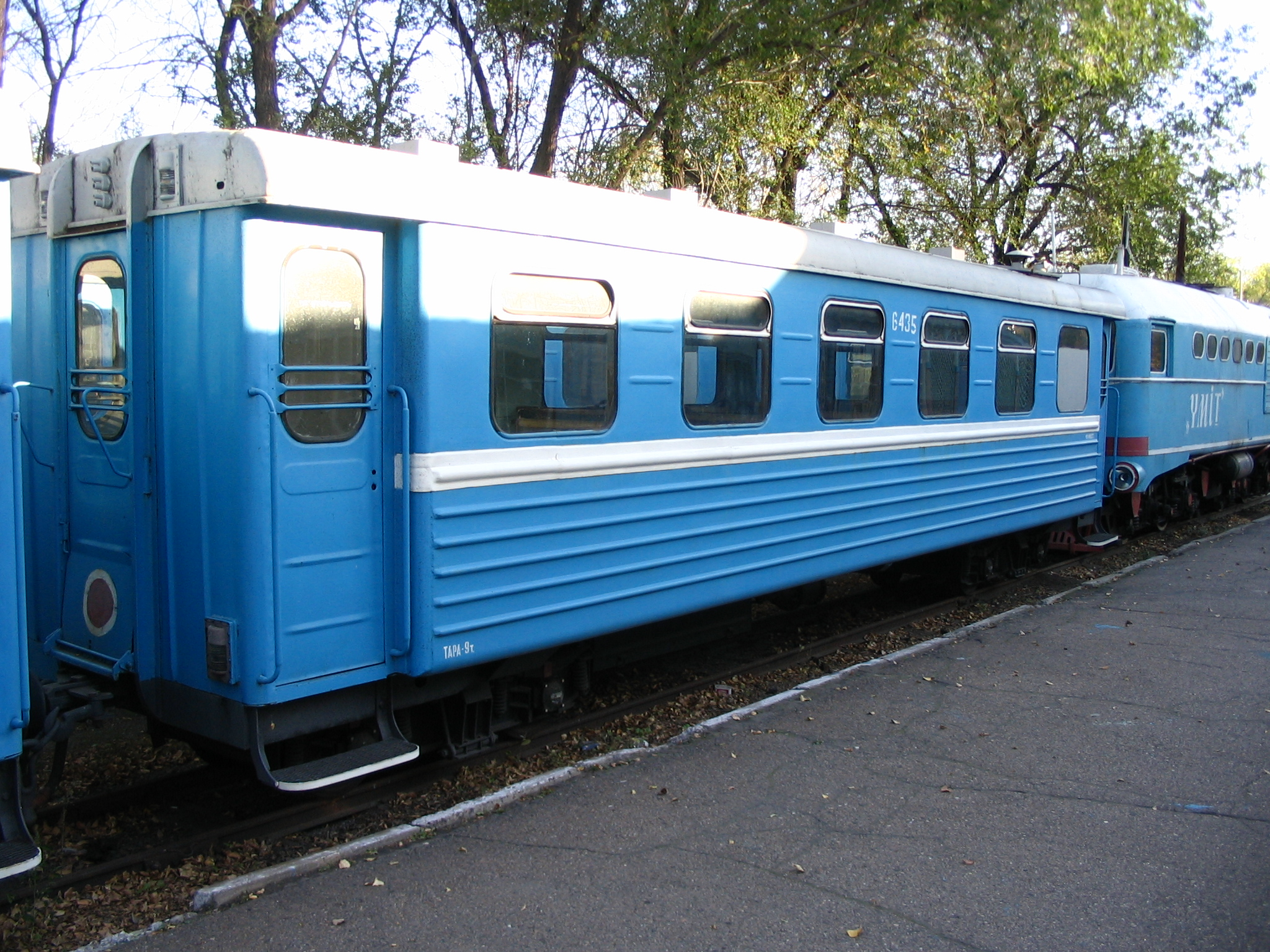 Karaganda Children's Railway: PV40 coach and TW2 locomotive 111 "Ümit". Карагандинская детская железная дорога